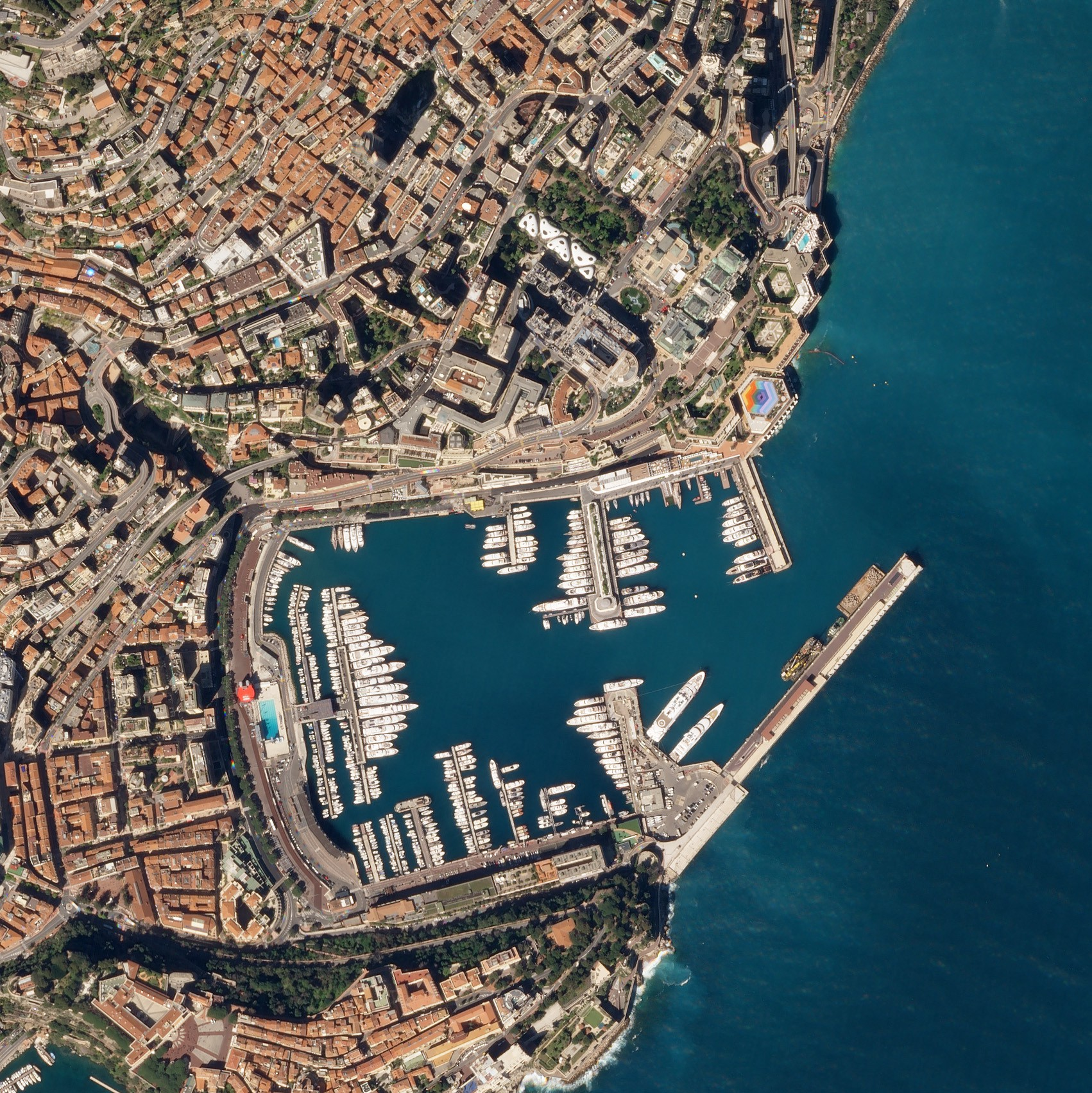 Circuit de Monaco is a street circuit laid out on the city streets of Monte Carlo and La Condamine around the harbour of the principality of Monaco. It is home to the Formula One Monaco Grand Prix, Formula E Monaco ePrix, and the Historic Grand Prix of Monaco. Image taken on April 1, 2018, by a Planet Labs SkySat satellite.